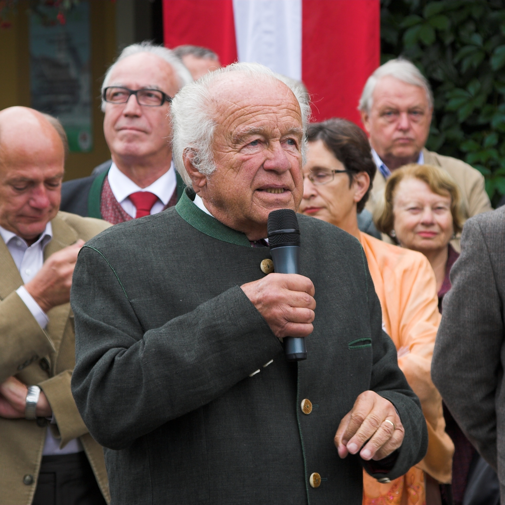 Former Upper Austrian Governor Josef Ratzenböck holding a speech at the 120 year anniversary celebration of the Steyrtalbahn (today a heritage railway), taken at Steyr Lokalbahnhof station.